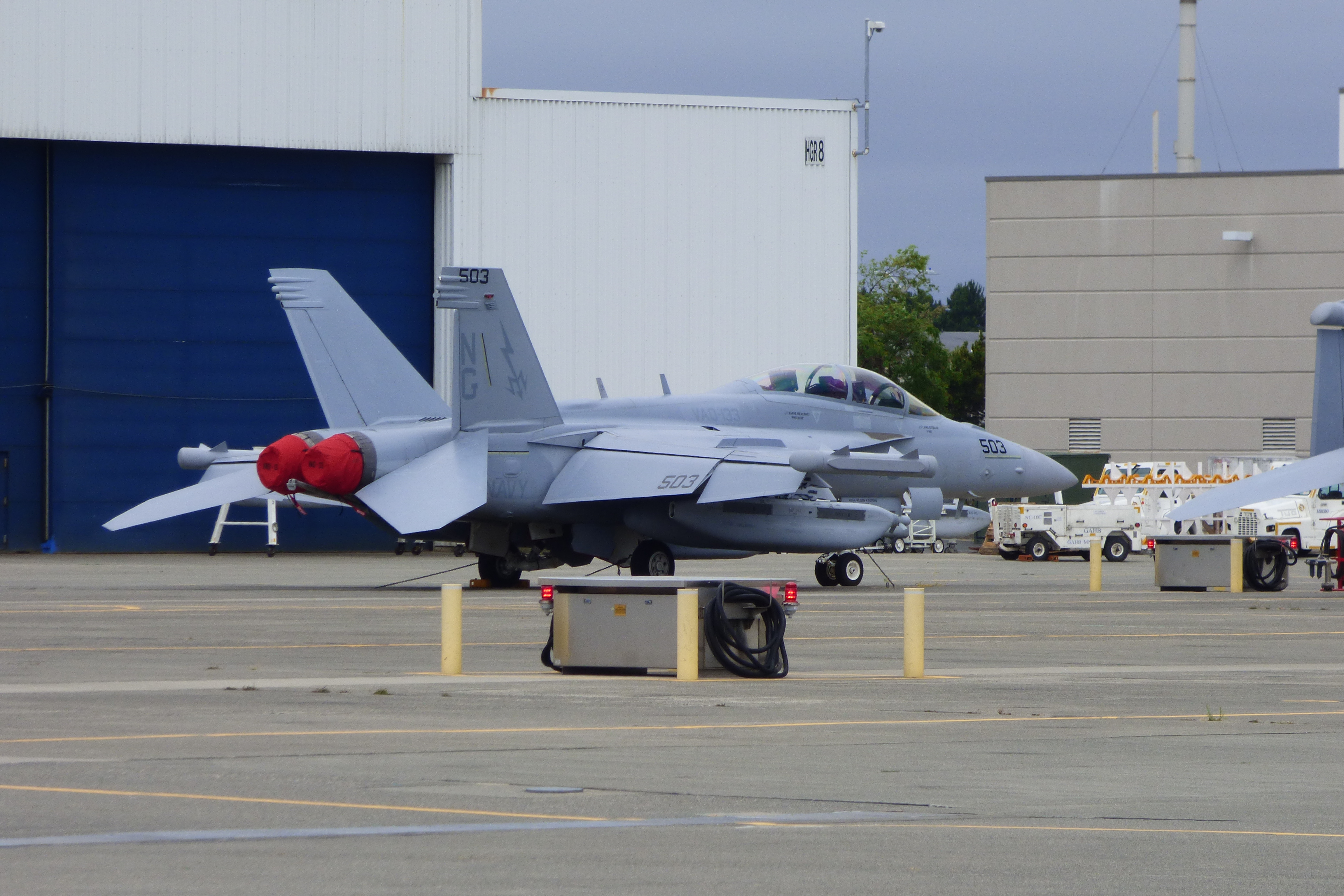 Photo of VAQ-133 Wizards' Boeing EA-18G Growler parked at NAS Whidbey Island, 19 July 2014.